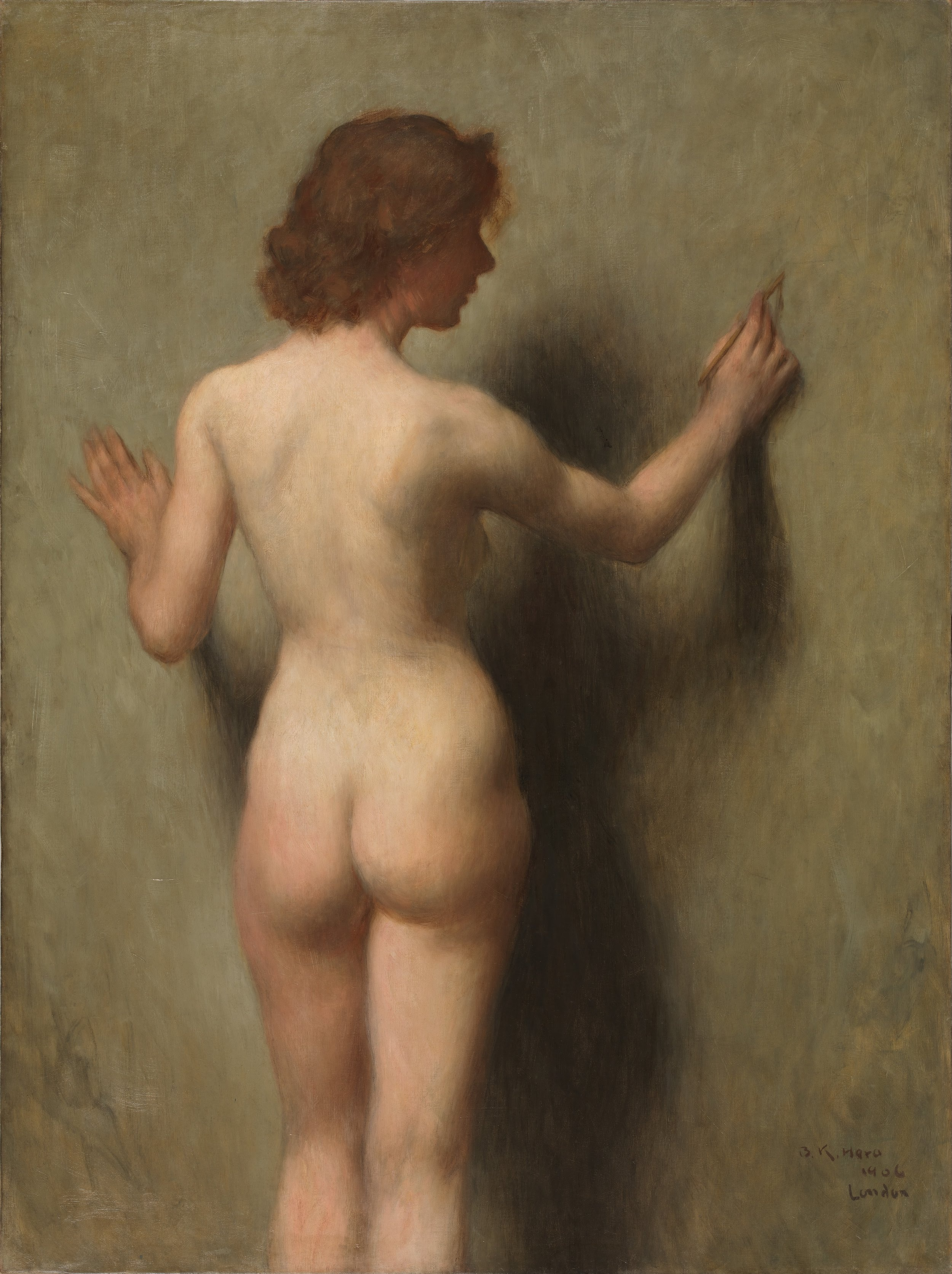 Nude, by Hara Busho, University Art Museum, Tokyo University of the Arts, Japan